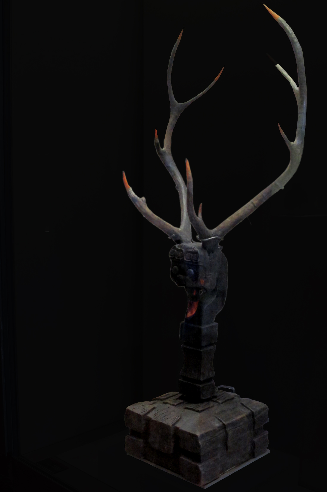 Tomb Beast-Guard (Zhenmushou). Vth - IIIth century B.C. Southern China. Kingdom of Chu (Xth. c. - 223 B.C.). Cernuschi Museum, Paris, France.